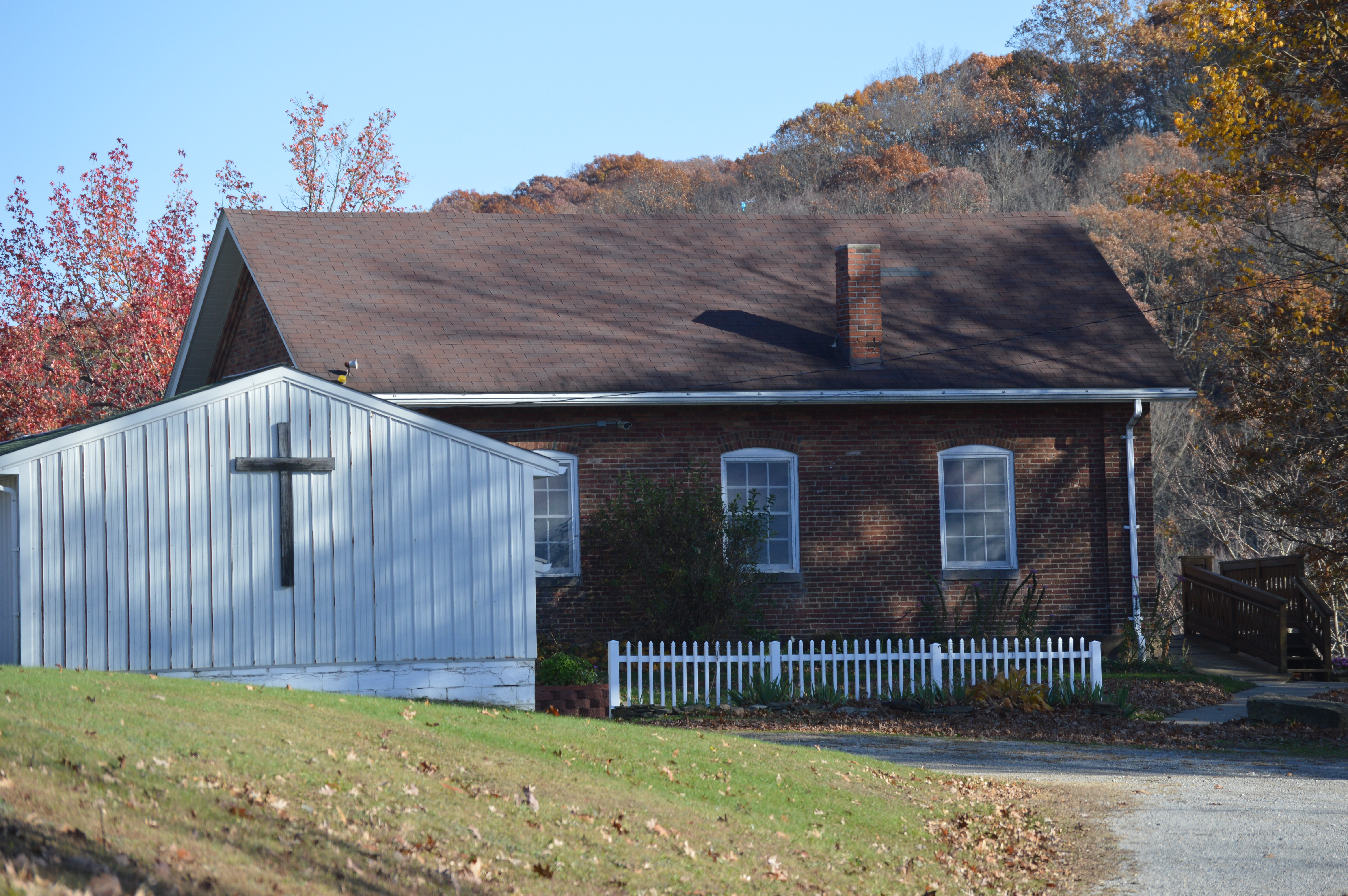 Front of the Service United Presbyterian Church, located on Service Church Road in Raccoon Township, Beaver County, Pennsylvania, United States. Built in 1928, it is the latest in a series of church buildings that began circa 1792.